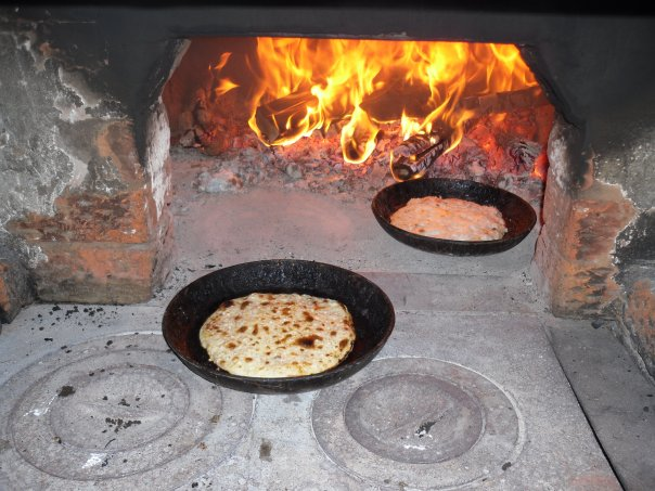 Komanmelna, Mari traditional cuisine.